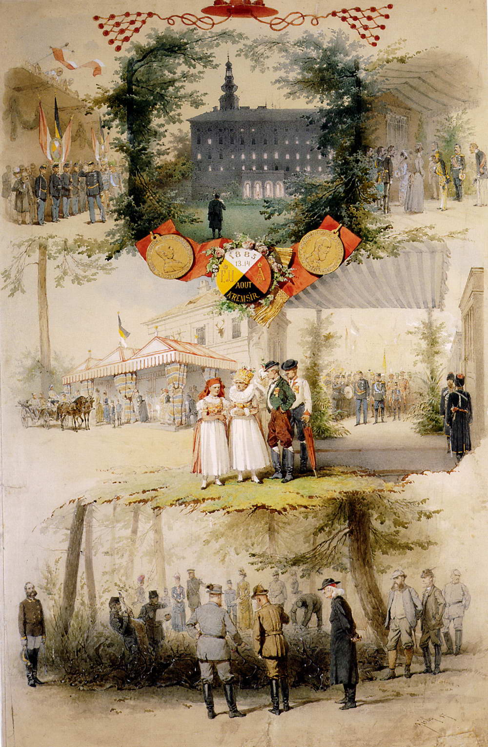 Mihály Zichy, 1887